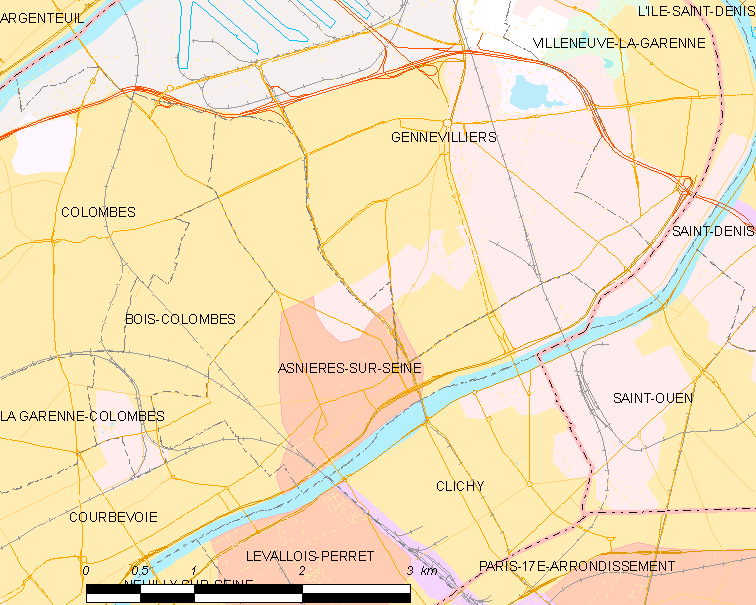 Map of French municipality Asnières-sur-Seine